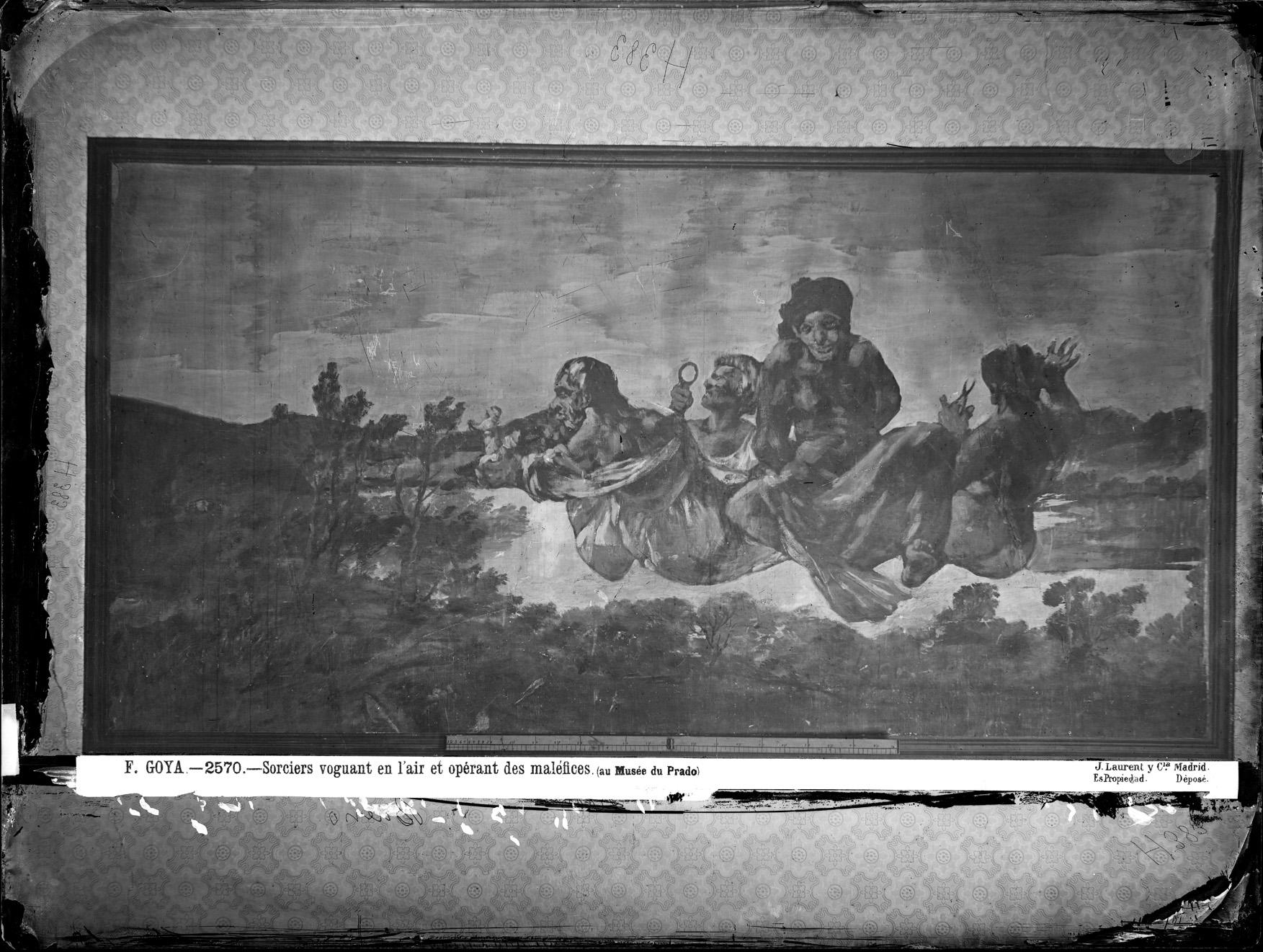 Photo of mural painting "Atropos", or "The Fates" (Spanish: Átropos or Las Parcas), from the series of Black Paintings of Goya. The original glass negative was taken by J. Laurent, in 1874, inside of the house of the Quinta de Goya. Years later, around 1890, the successors of Laurent added a label indicating "Prado Museum". But photographic reproduction is 1874.